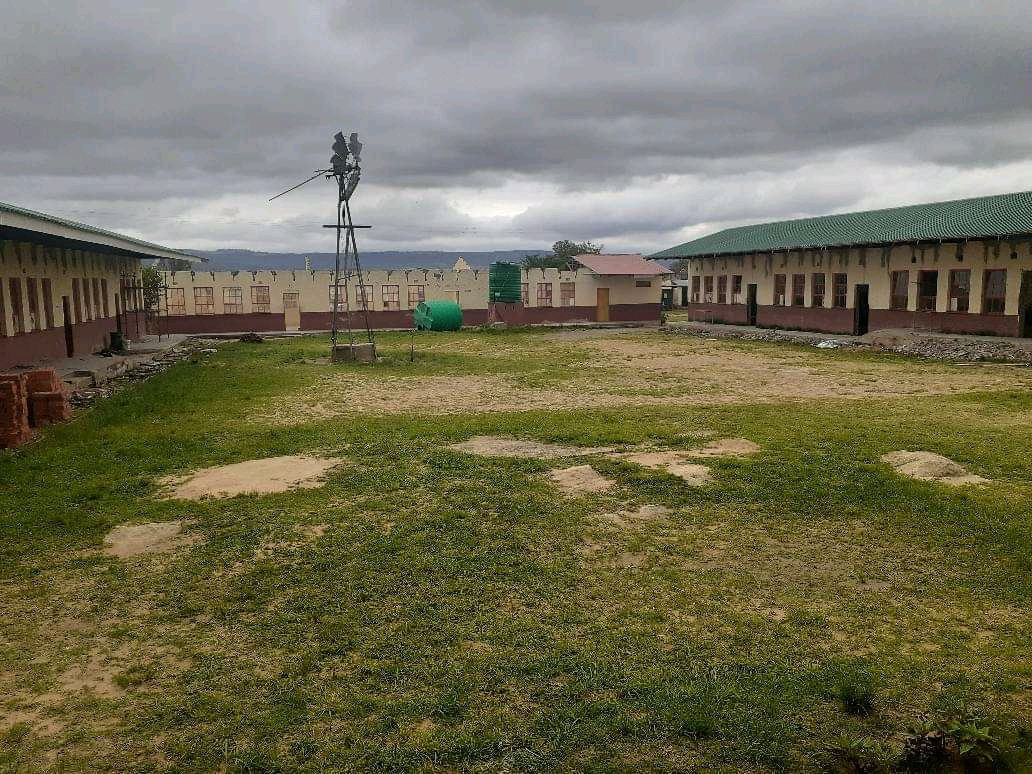 Renovation of schools in south africa, KwaZulu-Natal, Ladysmith,THOLENI. This is an image with the theme "Africa on the Move or Transport" from: South Africa